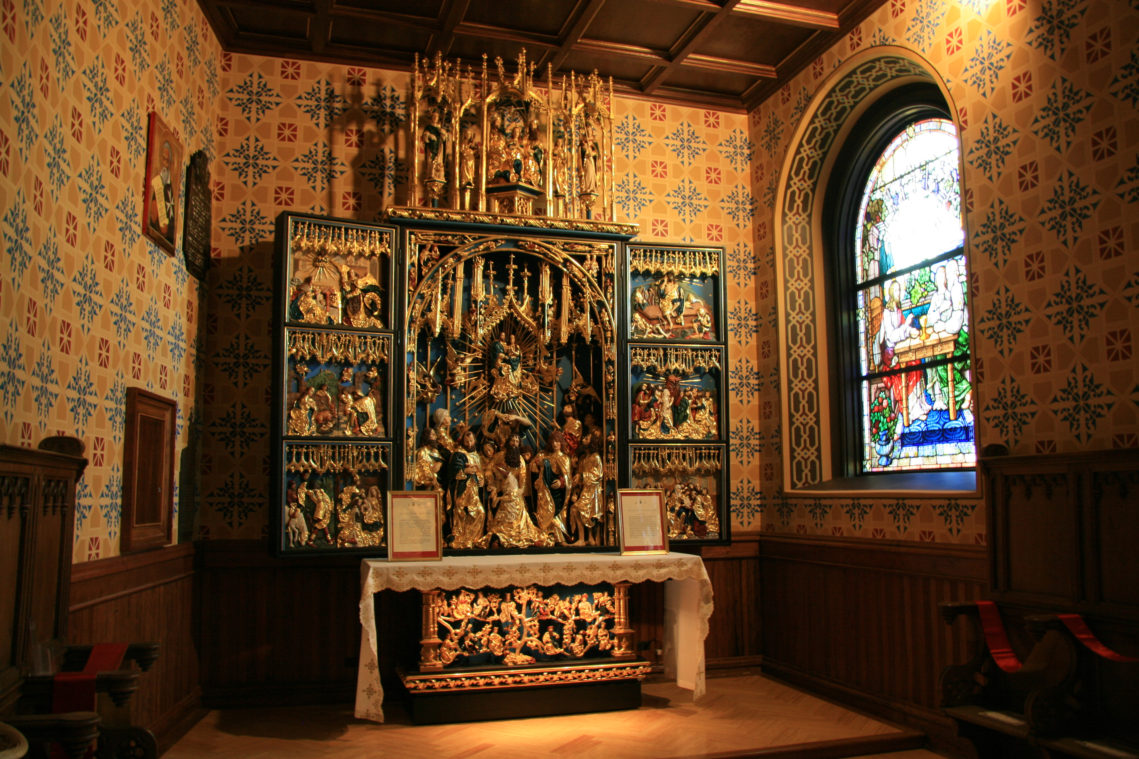 The Altarpiece of Veit Stoss (Polish: Ołtarz Wita Stwosza